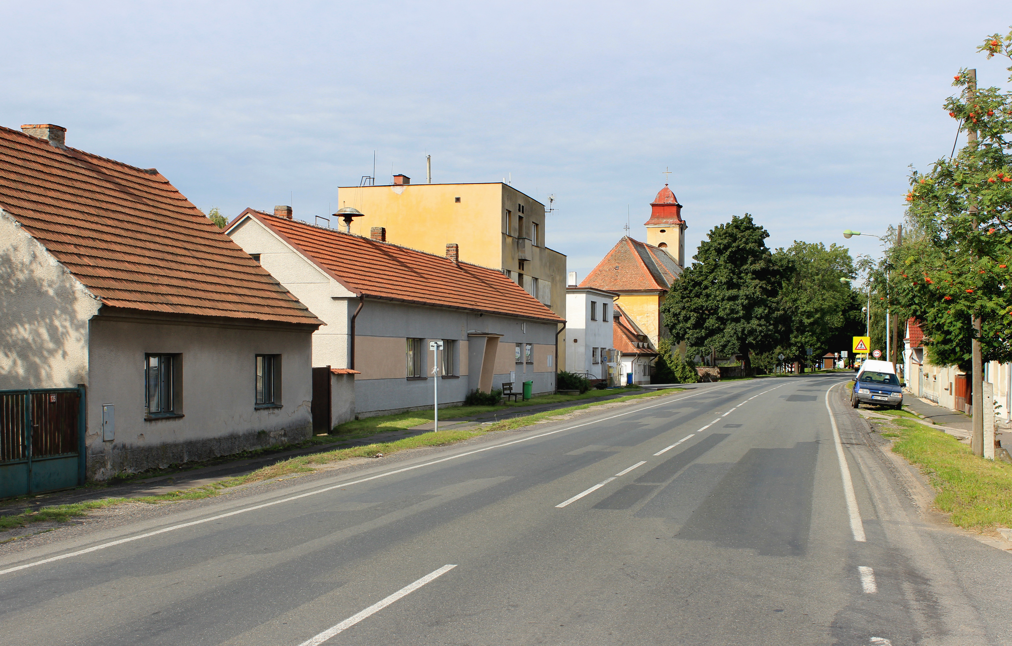 Road No. 611 in Kostelní Lhota, Czech Republic.